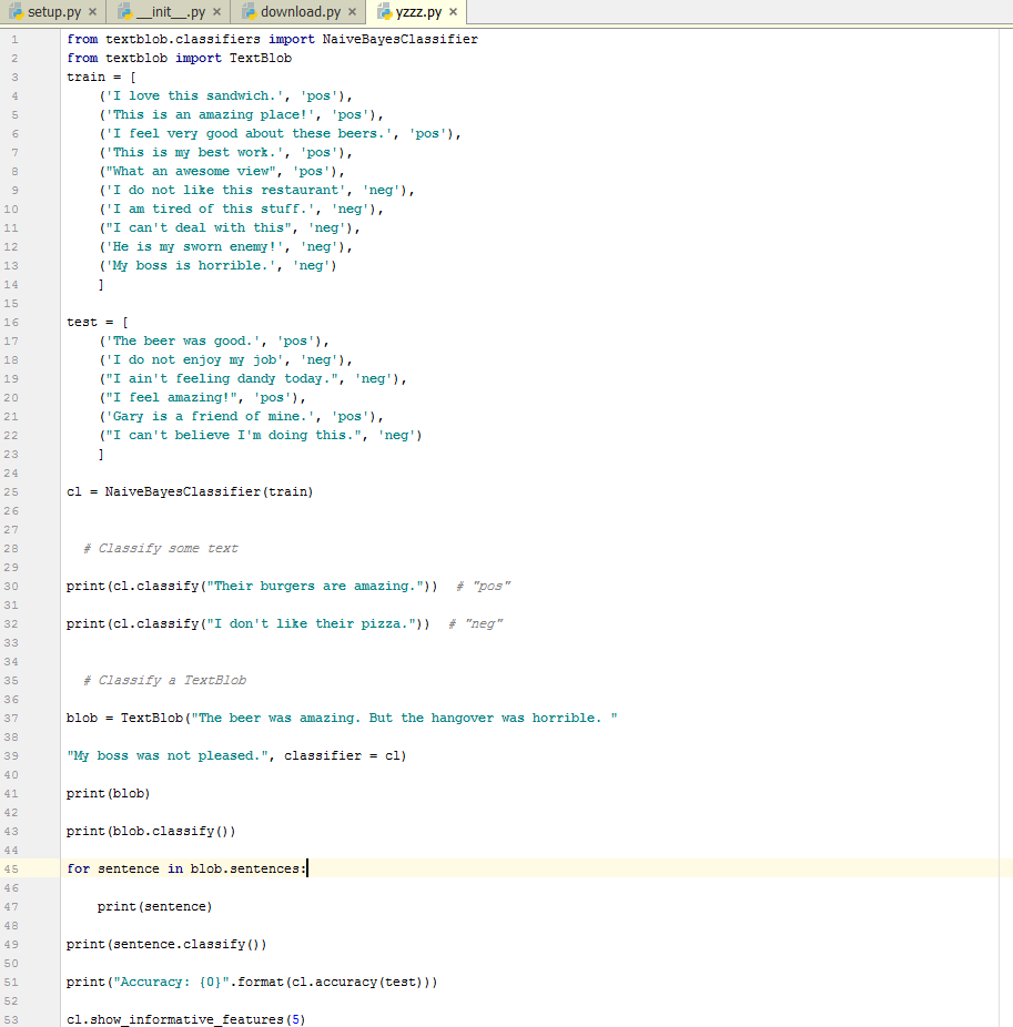 This code is an example for classification in python.It's my own work.